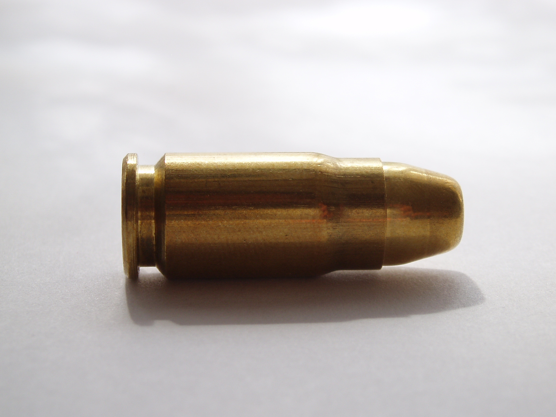 .357 SIG pistol cartridge. FMJ bullet. Manufacturer: Sellier & Bellot.